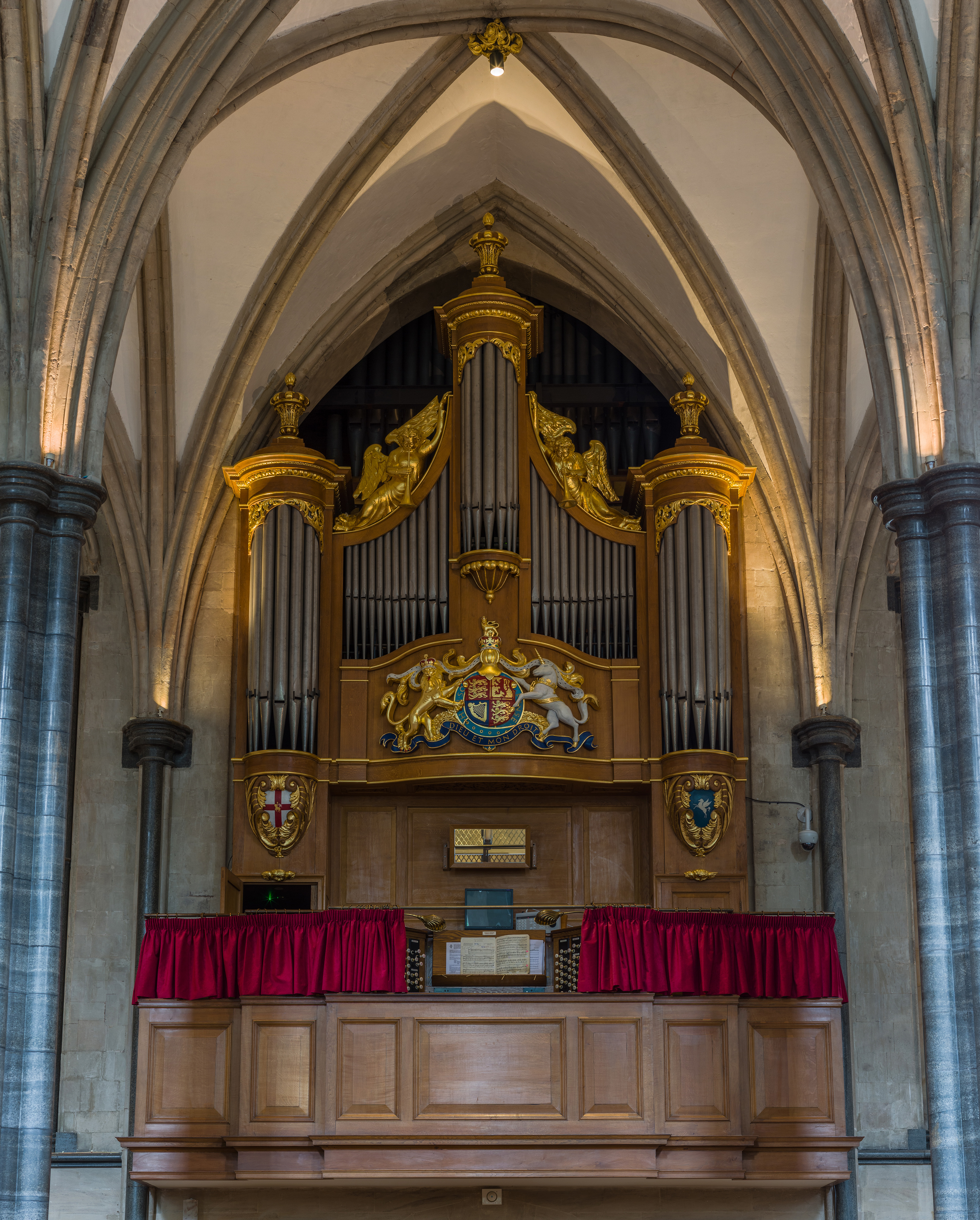 The organ of Temple Church in London, England.